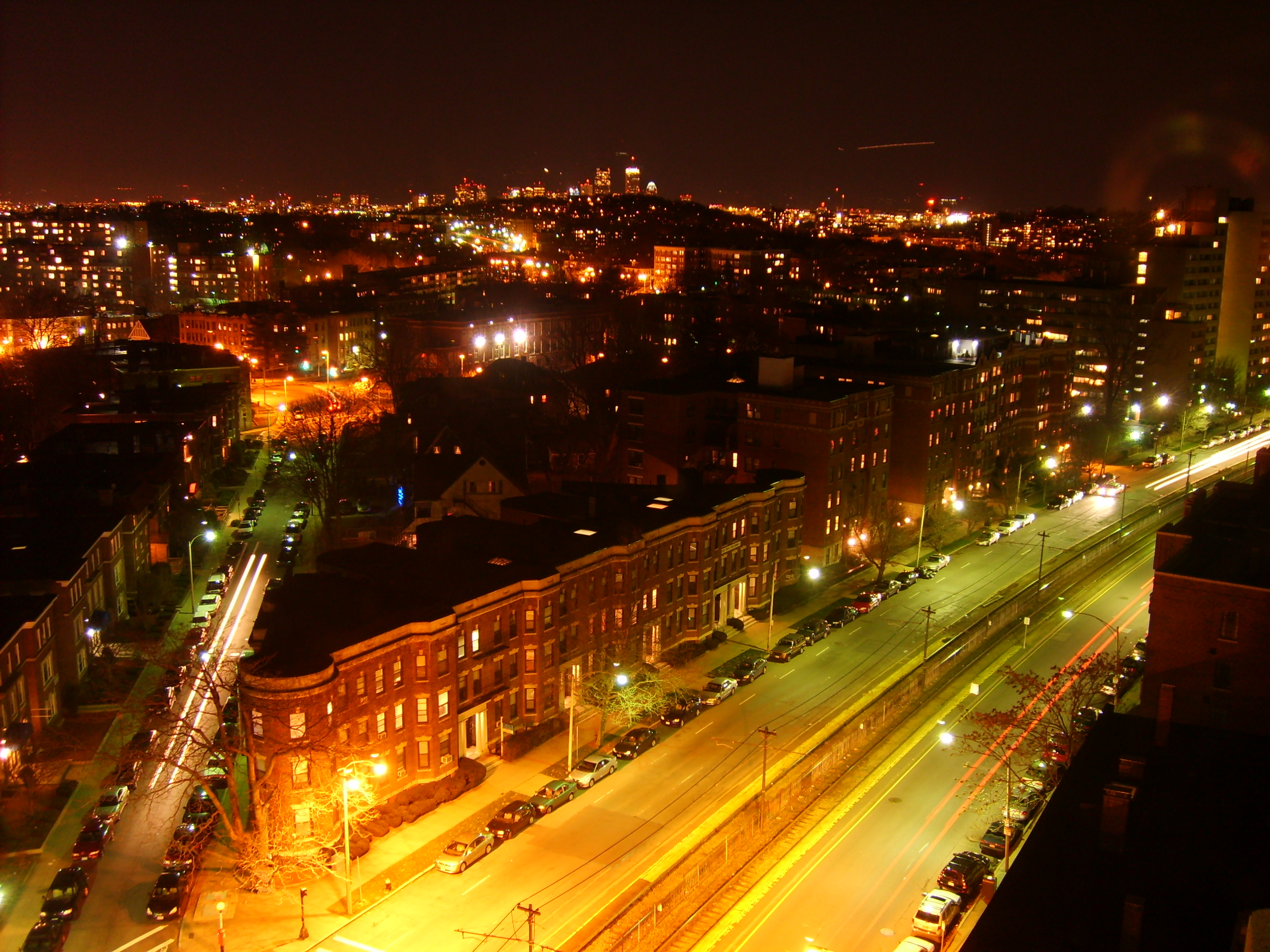 Commonwealth Ave in Brighton, MA, looking towards Boston. South Street is to the left; South Street MBTA station is in the median in the foreground.